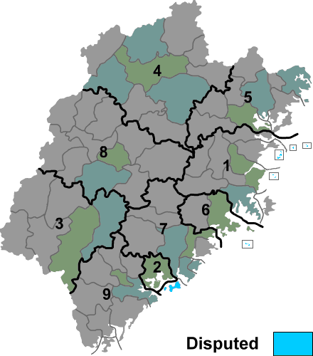 Map of prefectures of Fujian Fuzhou (福州市) Xiamen (厦门市) Longyan (龙岩市) Nanping (南平市) Ningde (宁德市) Putian (莆田市) Quanzhou (泉州市) Sanming (三明市) Zhangzhou (漳州市)